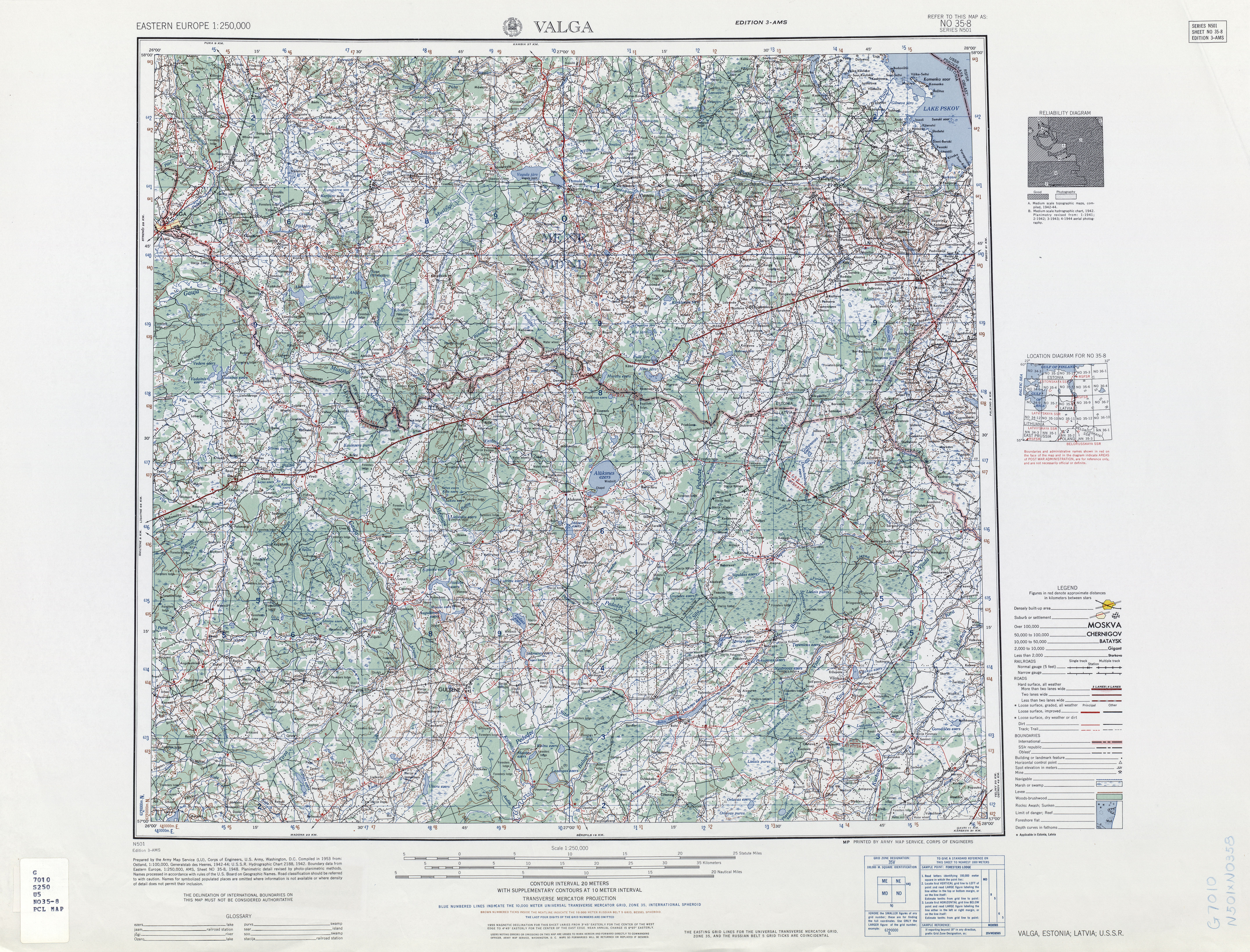 List from Eastern Europe AMS Topographic Maps. Series N501, U.S. Army Map Service, 1954